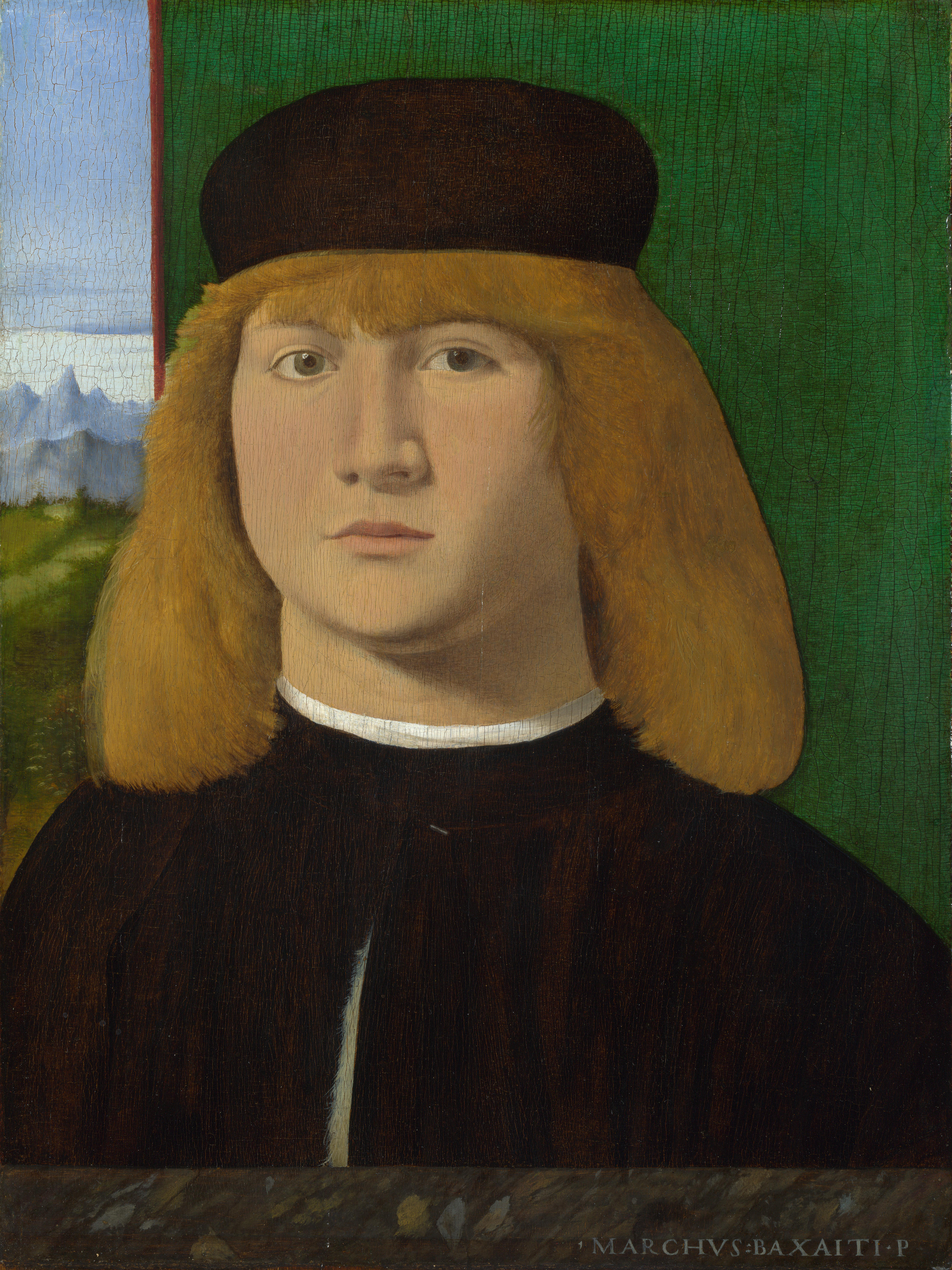 Portrait of a Young Man // NG London